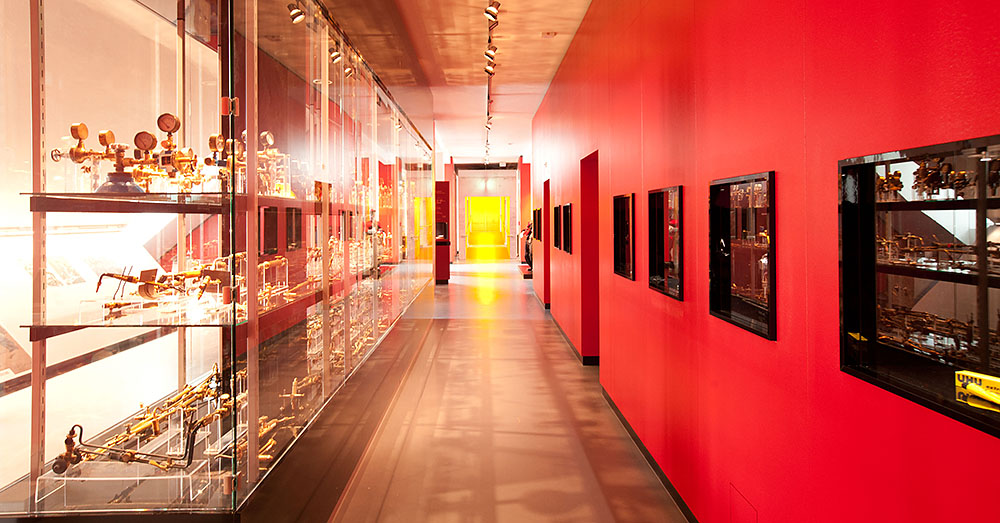 Blow lamp collection in Phantechnikum